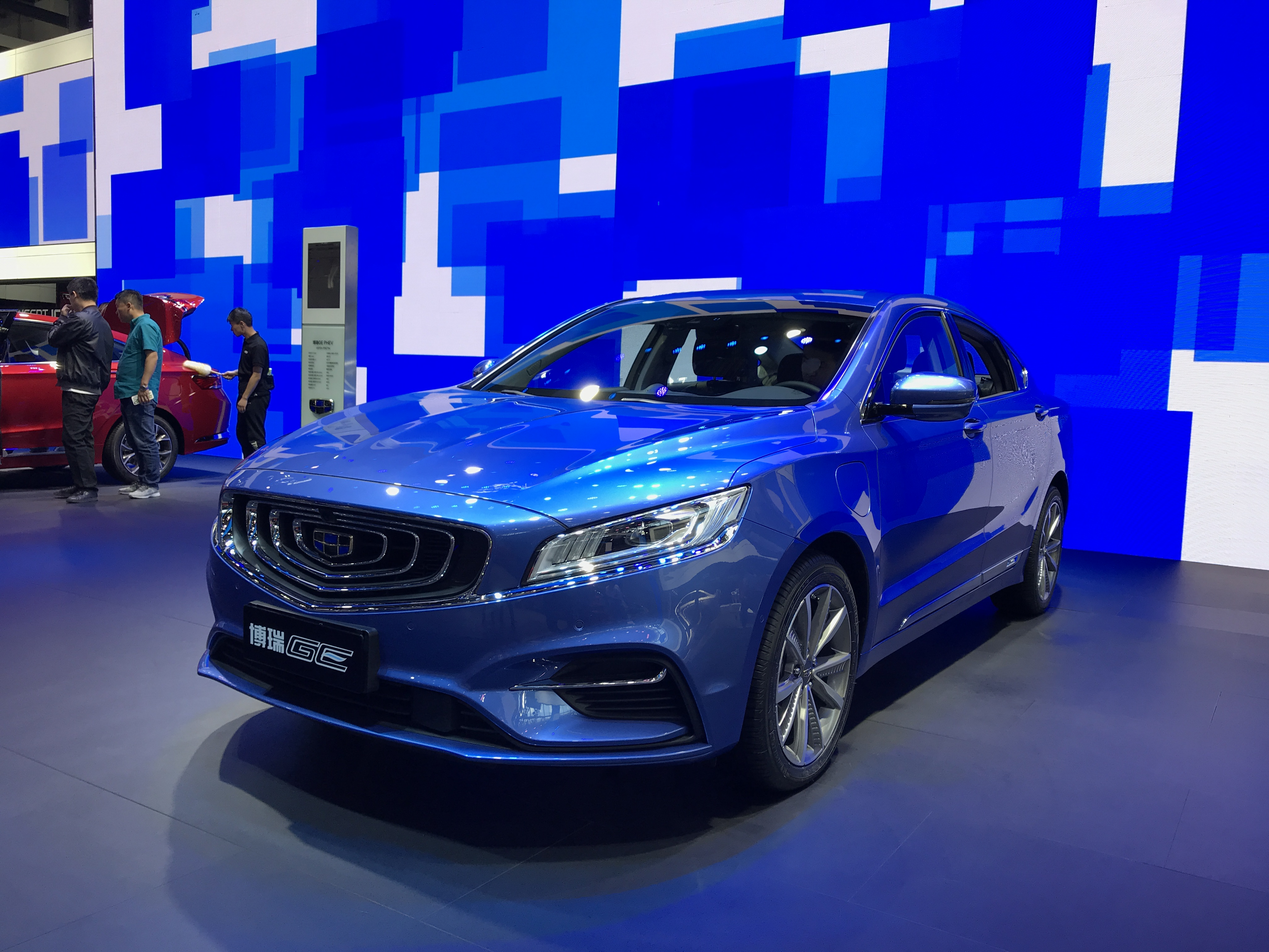 Geely Borui GE